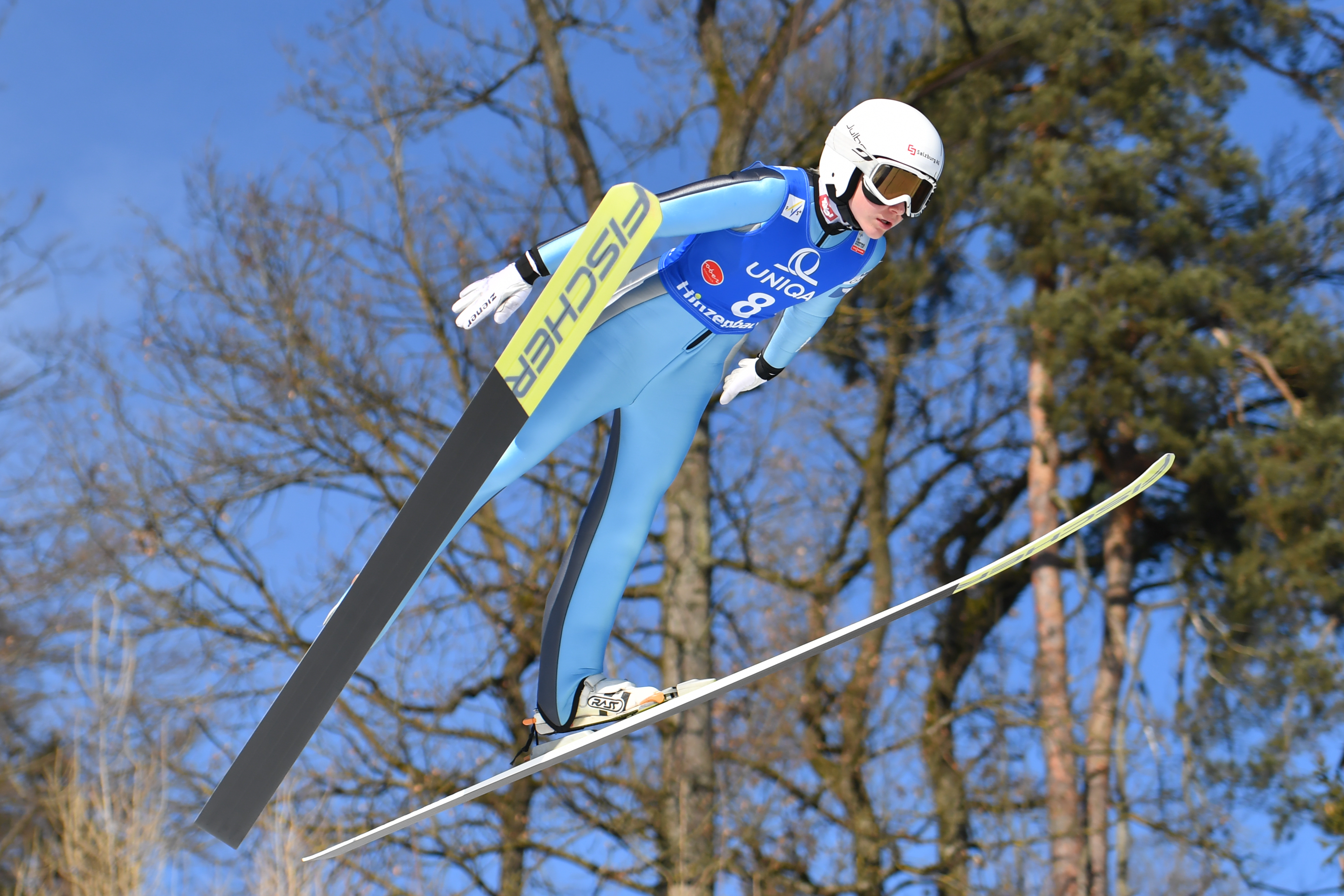 05/02/17, Hinzenbach, Austria, FIS Ski Jumping World Cup Ladies 2017